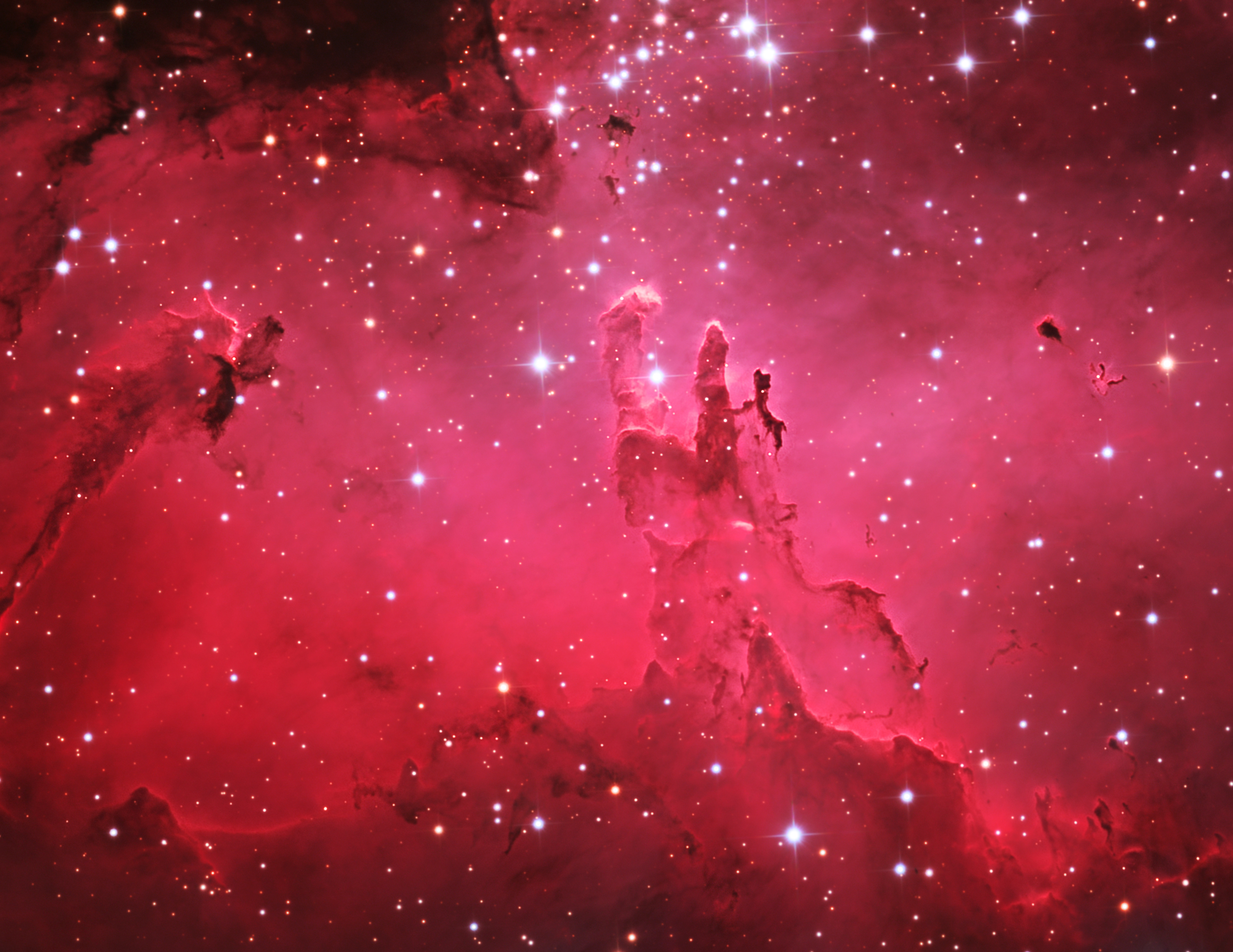 Messier 16 (M16) pillars and nebular in 32 inch Schulman telescope